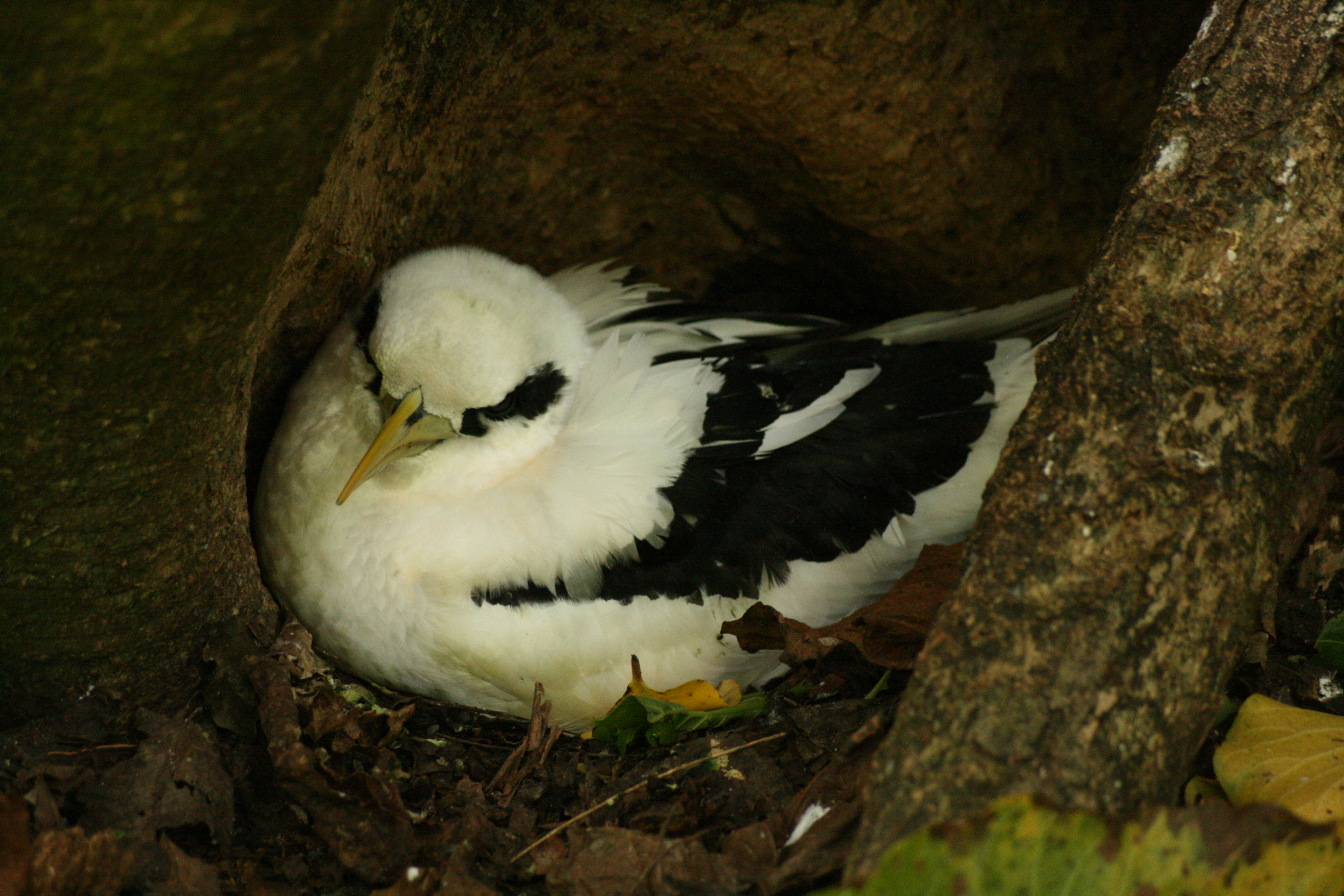 Phaethon lepturus ("White-tailed Tropicbird") in Cousin Island, Seychelles